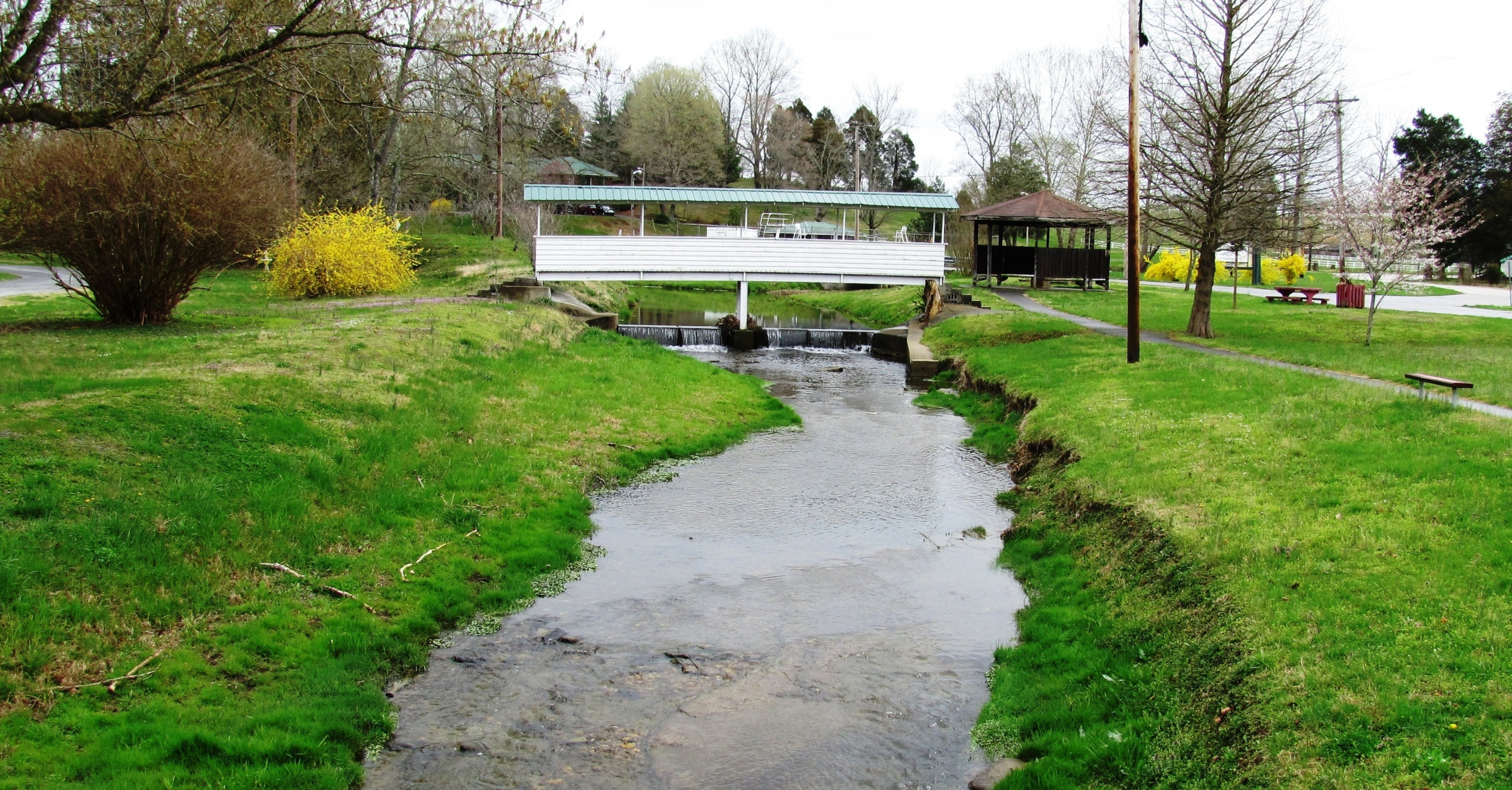 Covered bridge over Salt Lick Creek at the Donoho Hotel in Red Boiling Springs, Tennessee, USA. Highway 151 (Main Street) is visible on the far right. The Thomas House (Cloyd Hotel) is visible in the distance, just beyond the left end of the bridge.